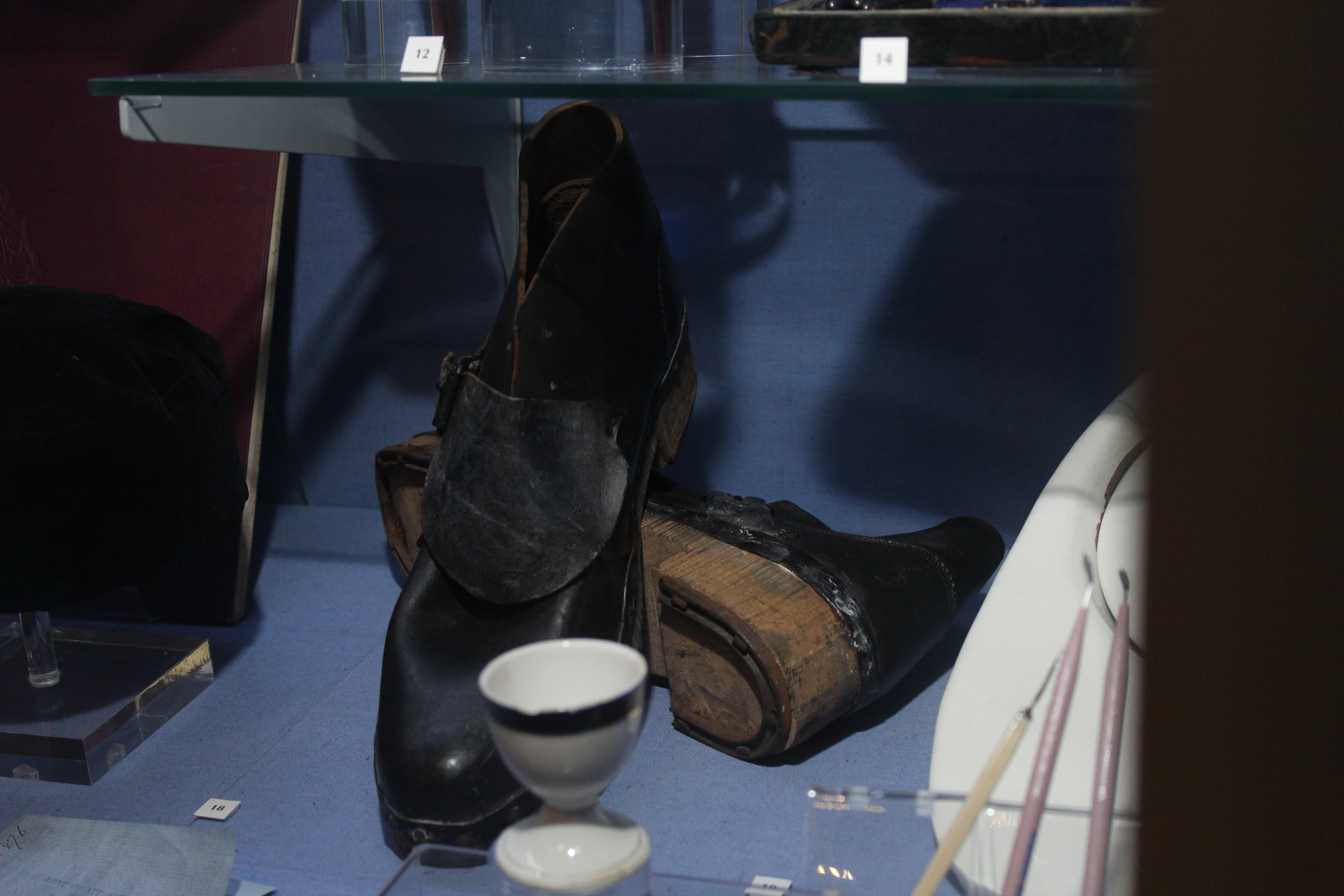 Clogs made by inmates of Barming Heath Lunatic Asylum (Kent, England) for the use of inmates working in the laundry.